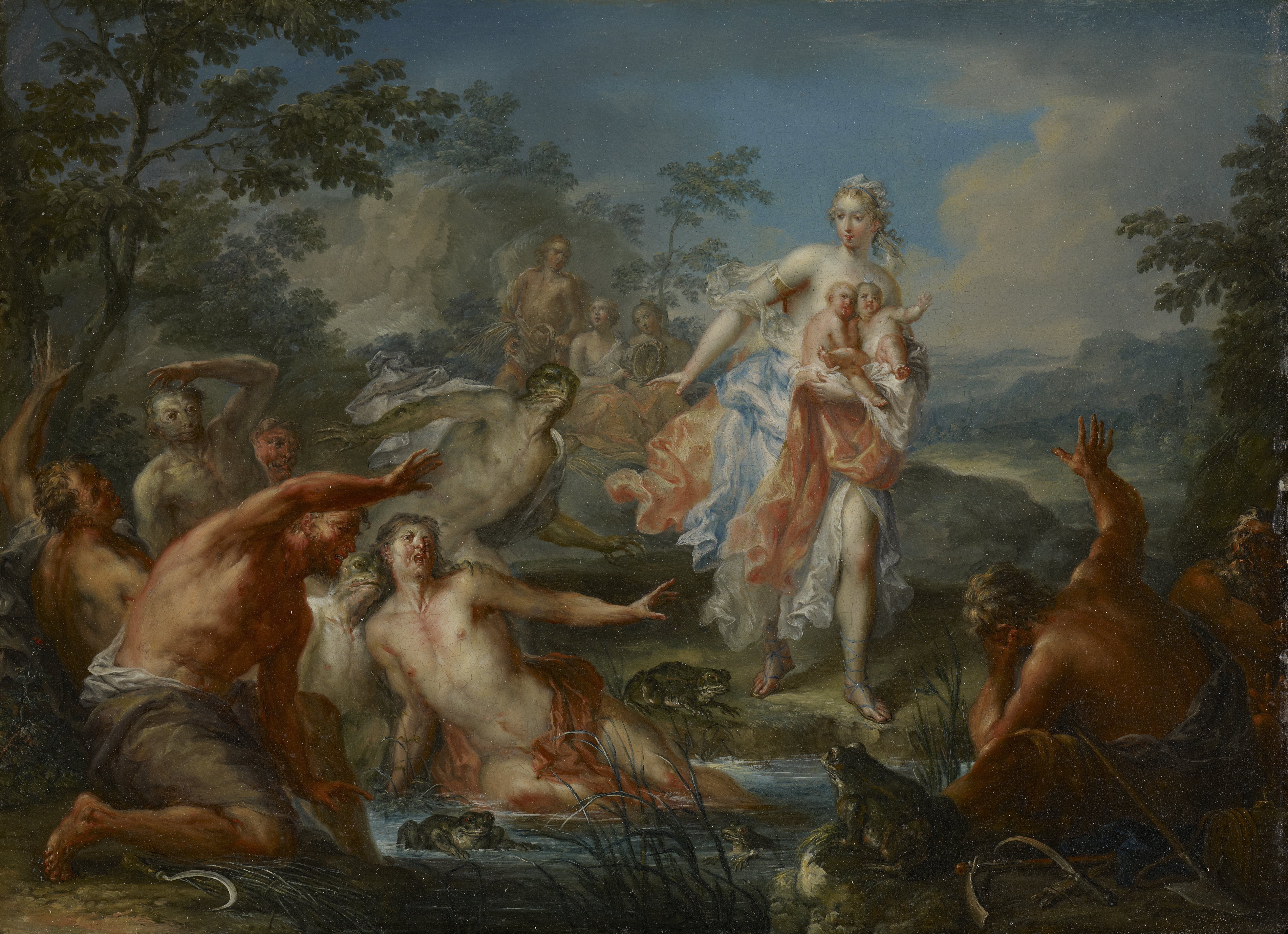 ‚Latona‘ is the Roman gods assimilated to the Greek goddess ‚Leto‘